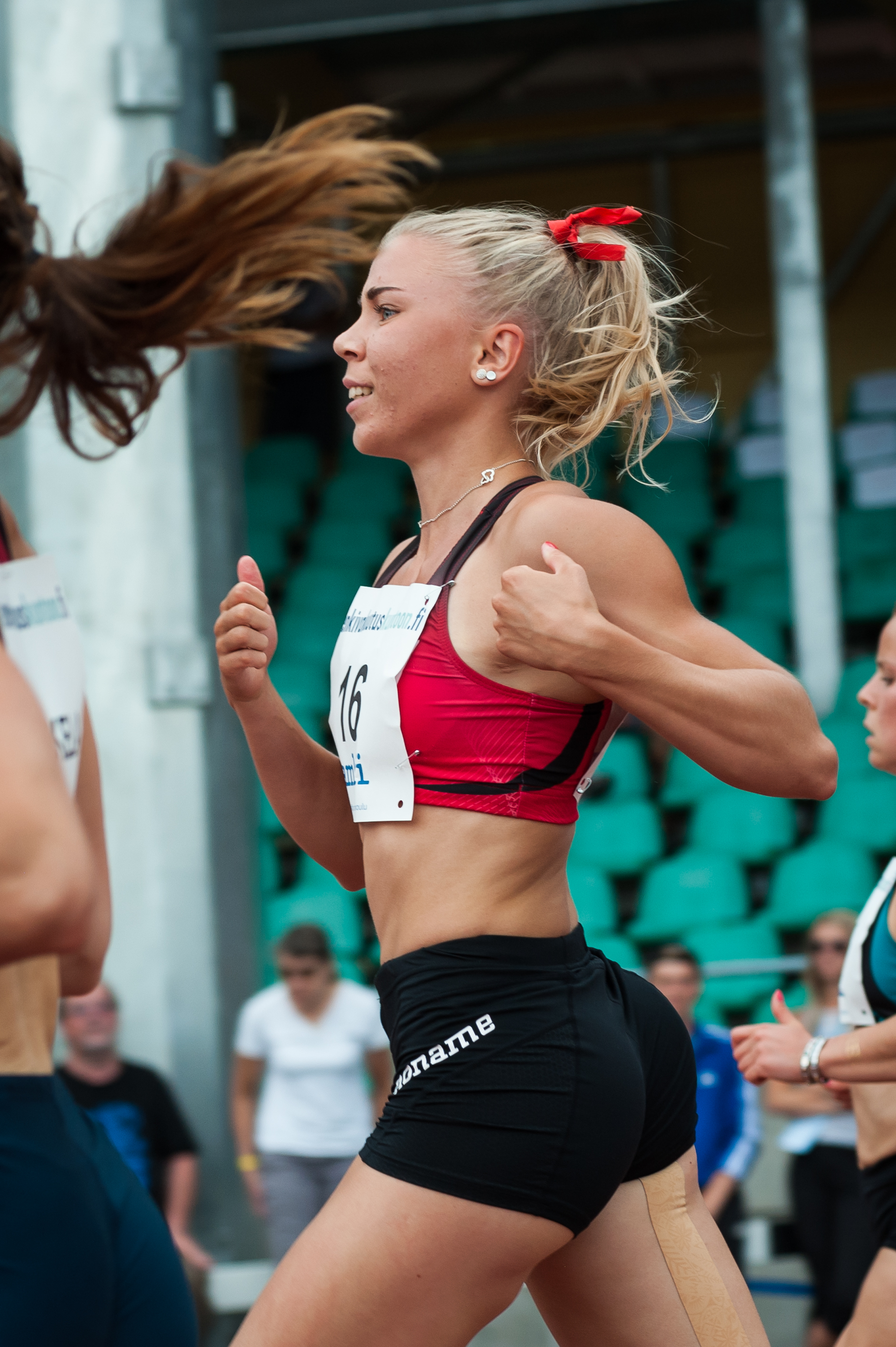 Women's 100 m competition at the 2018 Kalevan Kisat, the Finnish championships in athletics, in Jyväskylä, Finland.